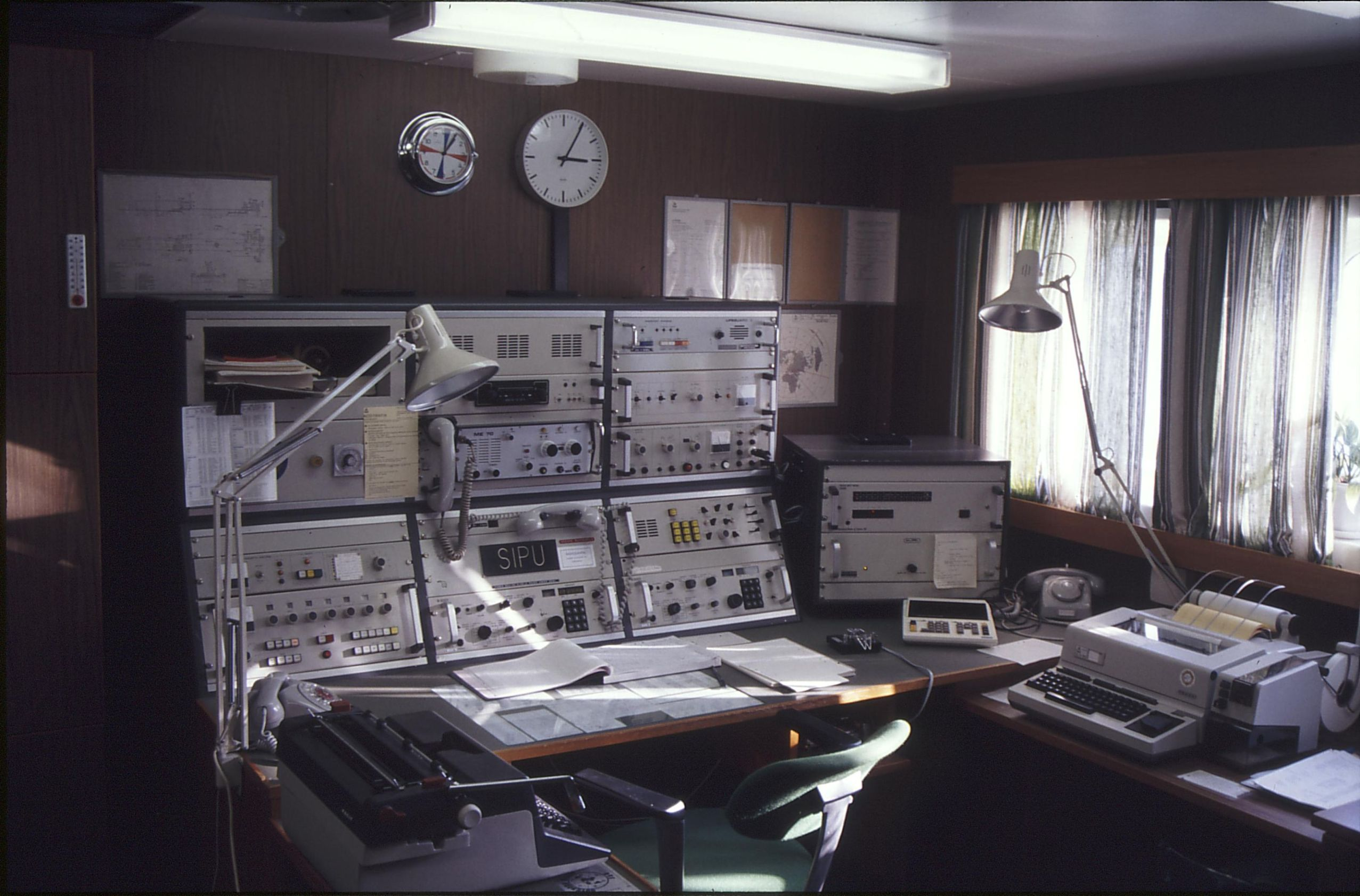 Radiostation onboard Wallenius Lines PCTC Madame Butterfly, callsign SIPU. Photo taken in may 1986.